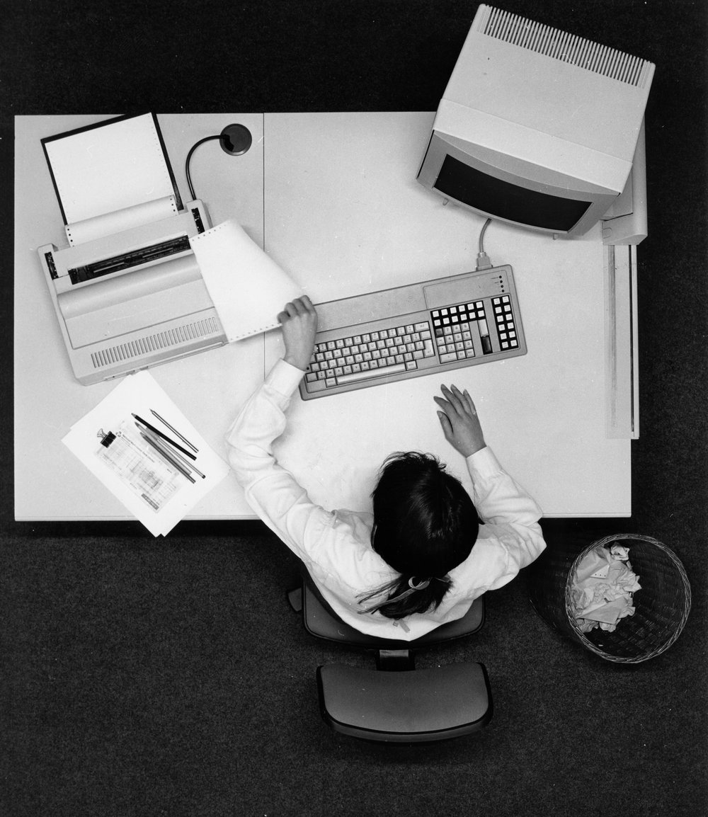 Olivetti Linea L1. George Sowden for Olivetti